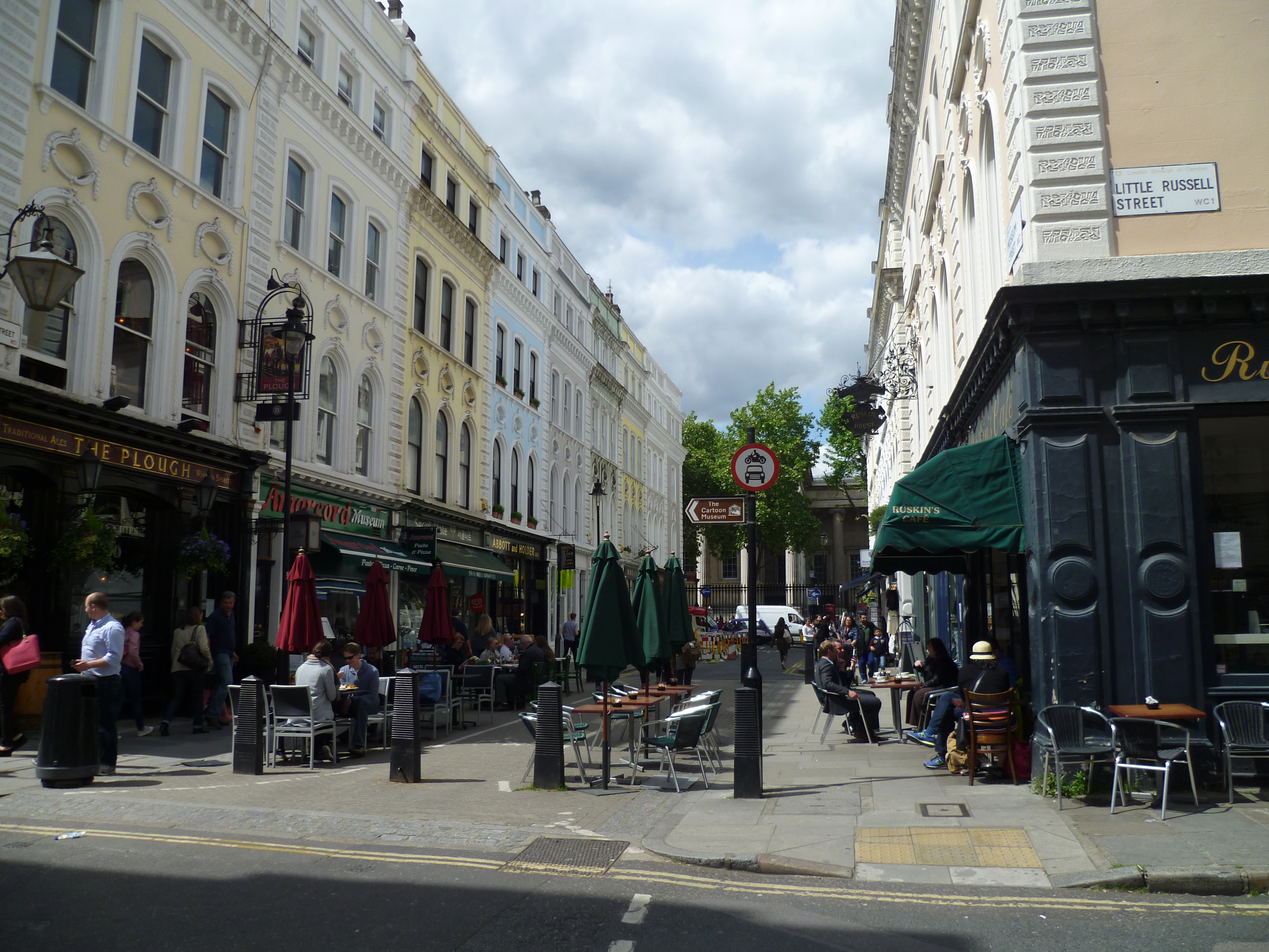 Junction of Museum Street and Little Russell Street, looking towards the British Museum.